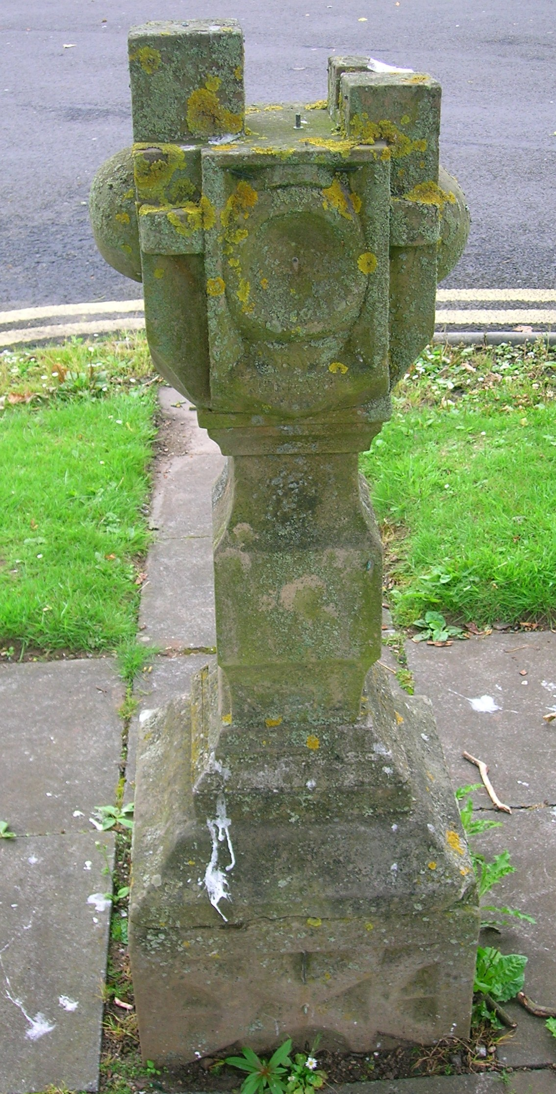 1795 Scottish Composite Sundial by Professor Robert Simson of Kirkton Hall House, Ardrossan, Scotland. West side.